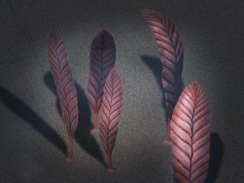 Life restoration of Charnia masoni, a frond-like rangeomorph lifeform around 15 cm (6 in) long from the Ediacaran biota. The relationship of rangeomorphs like Charnia to animals and other kingdoms of life is unclear; one proposed grouping puts them in their own animal phylum Petalonamae. Charnia was first discovered in England and was the first Precambrian fossil to be recognized as such; it has also been found in Australia, Russia, and Newfoundland. The sediments in which it is found indicate that it lived in a deep-sea environment.